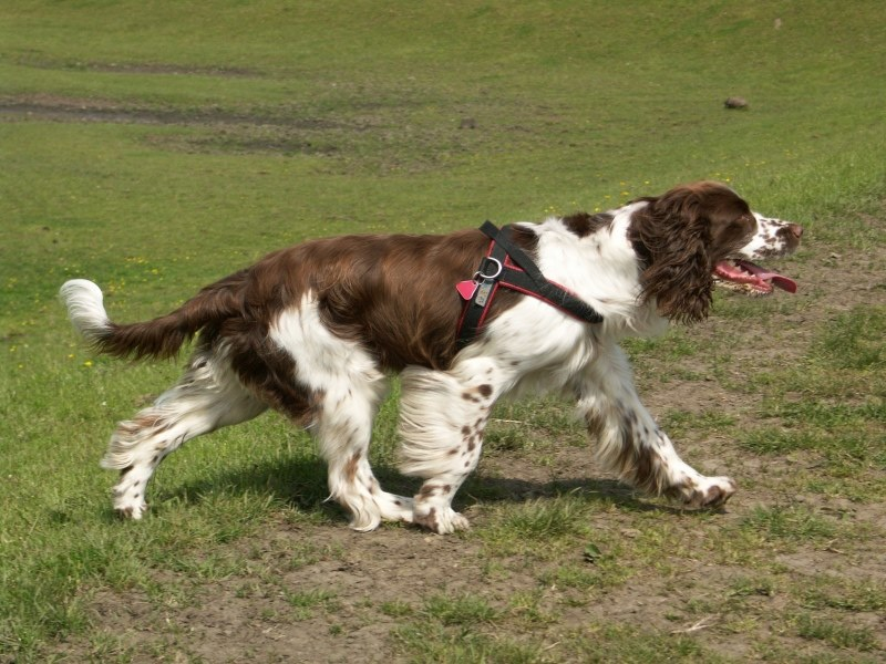 English Springer Spaniel